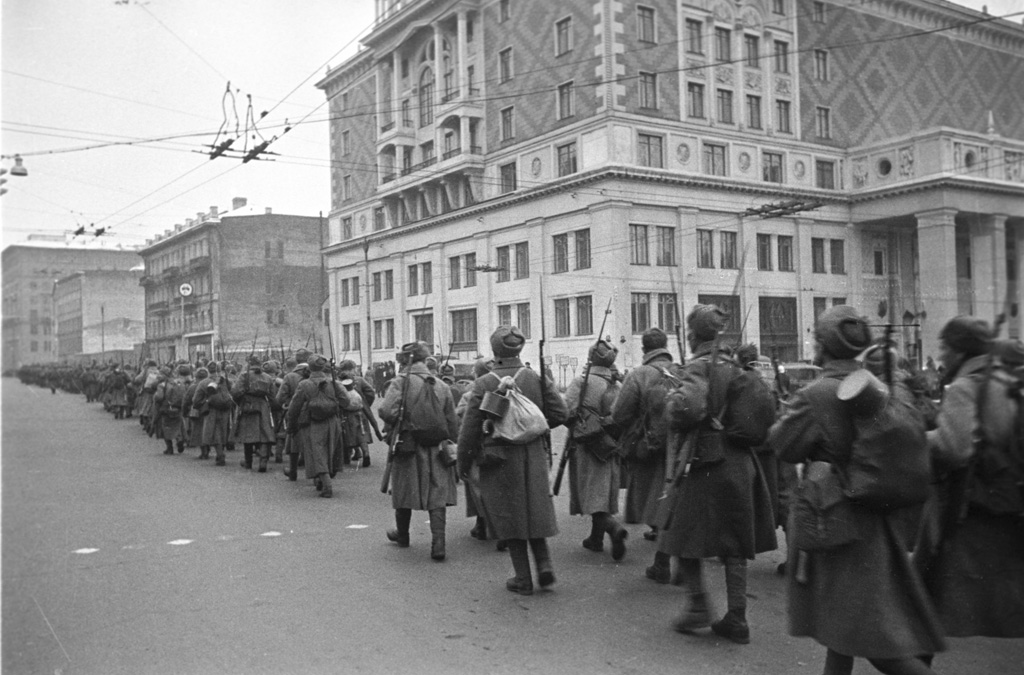 “Troops going to the front”. Troops going to the front along a Moscow street. // Gorky (Tverskaya Street) at Chakovsky Hall, view to south-east